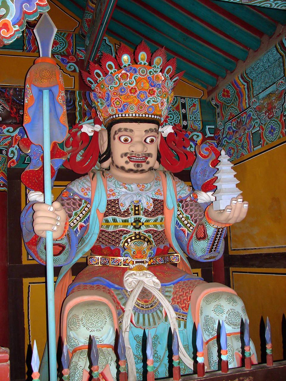 Vaisravana, Guardian of the North is one of the Four Heavanly Kings guarding the entrance to Beomeosa. The Four Heavenly Kings dwell in the heaven closest to this earth and guard the four cardinal directions.